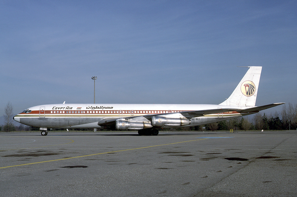 Egypt Air Boeing 707-366C at Basle / Mulhouse in December 1986